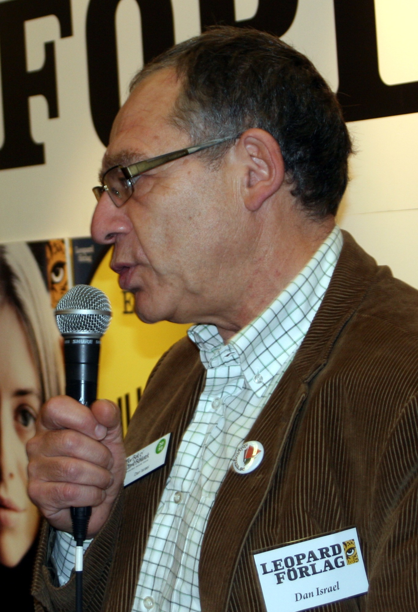 Dan Israel, at Göteborg Book Fair.